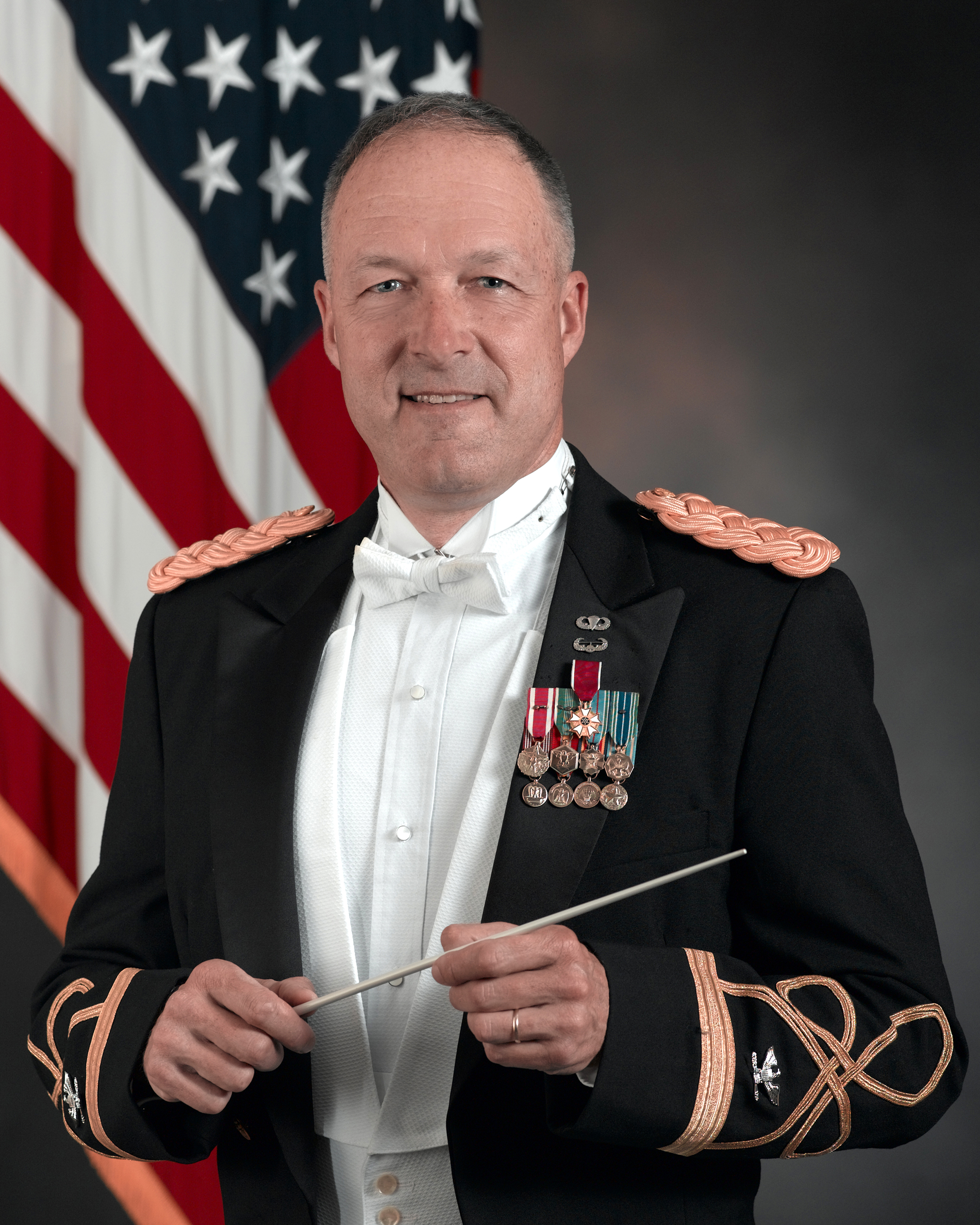 Colonel Thomas Palmatier, 9th Commander of the U.S. Army band